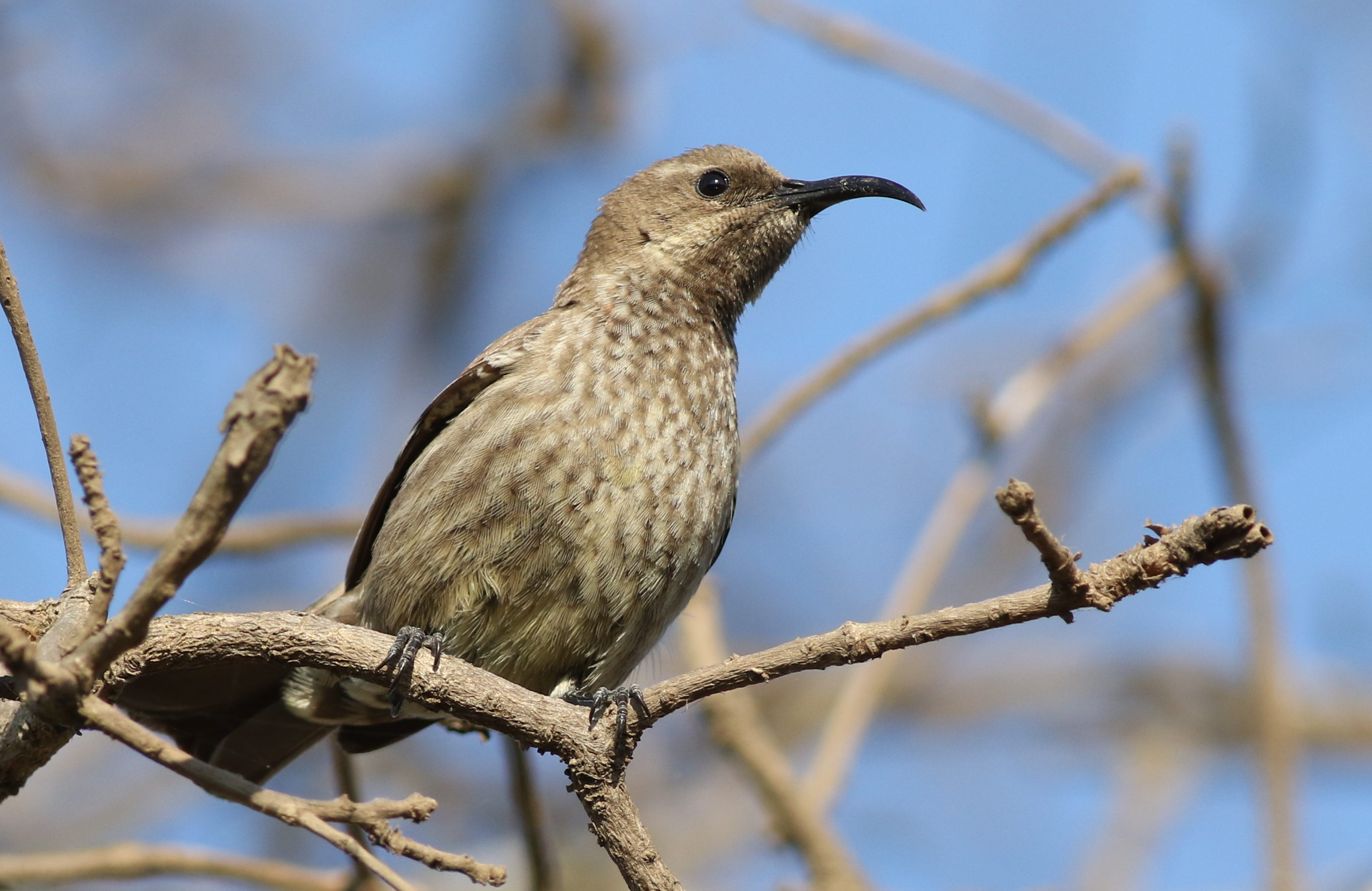 Scarlet-chested sunbird, Chalcomitra senegalensis, at Lake Chivero, Harare, Zimbabwe -- female